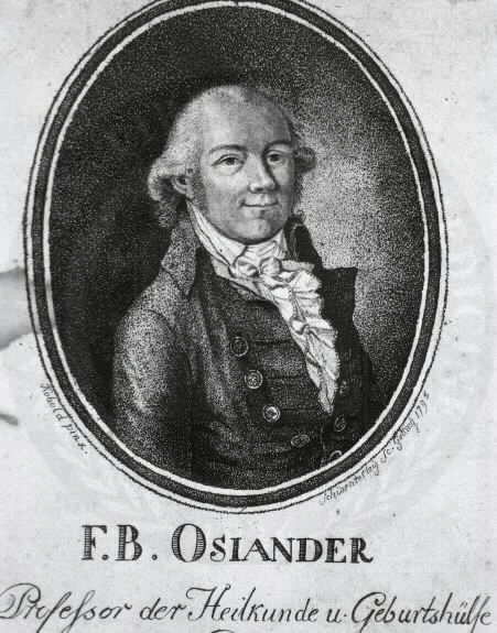 Friedrich Benjamin Osiander (1759—1822), German physician and gynaecologist